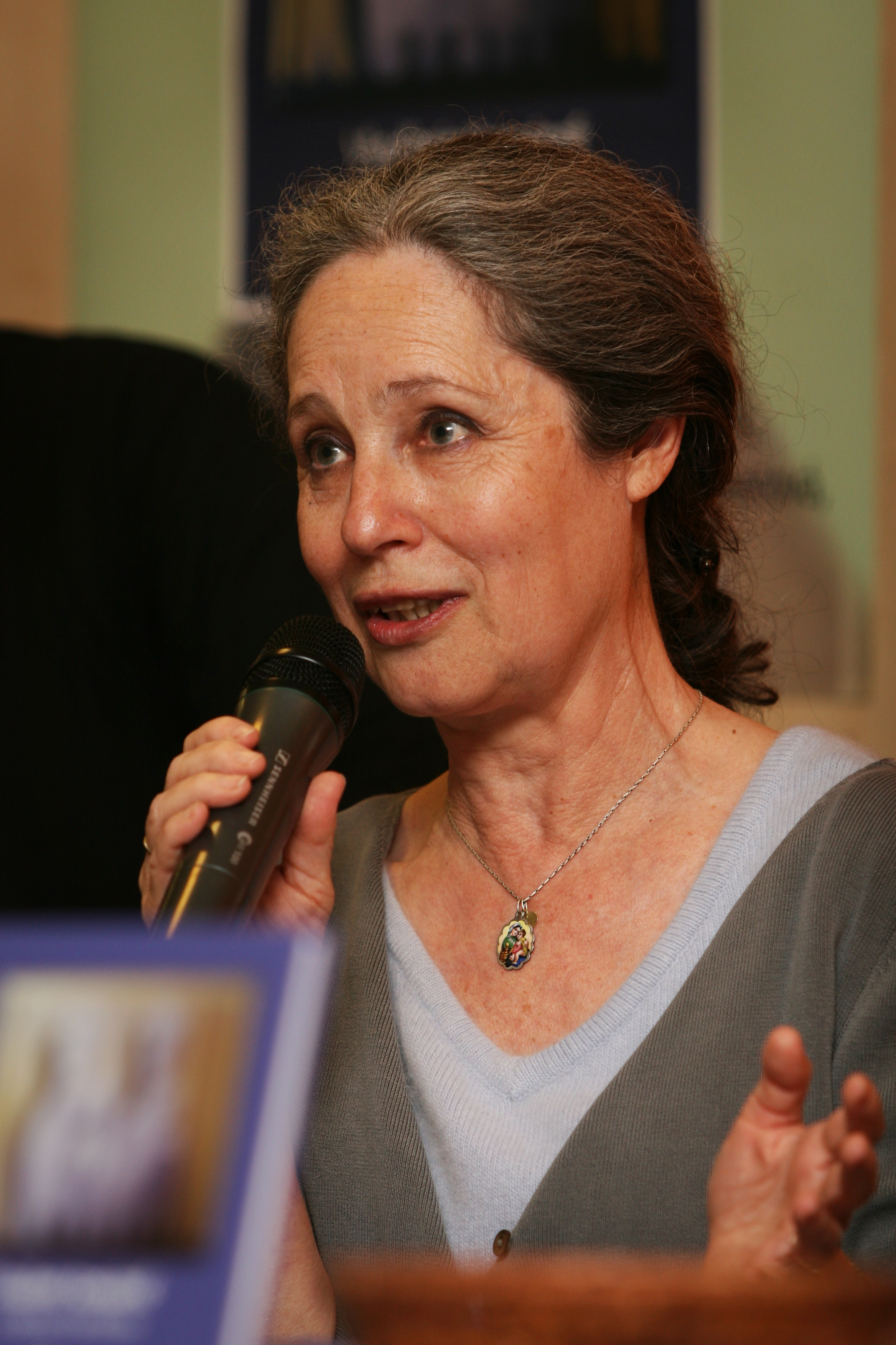 Czech actresses and politician Táňa Fischerová